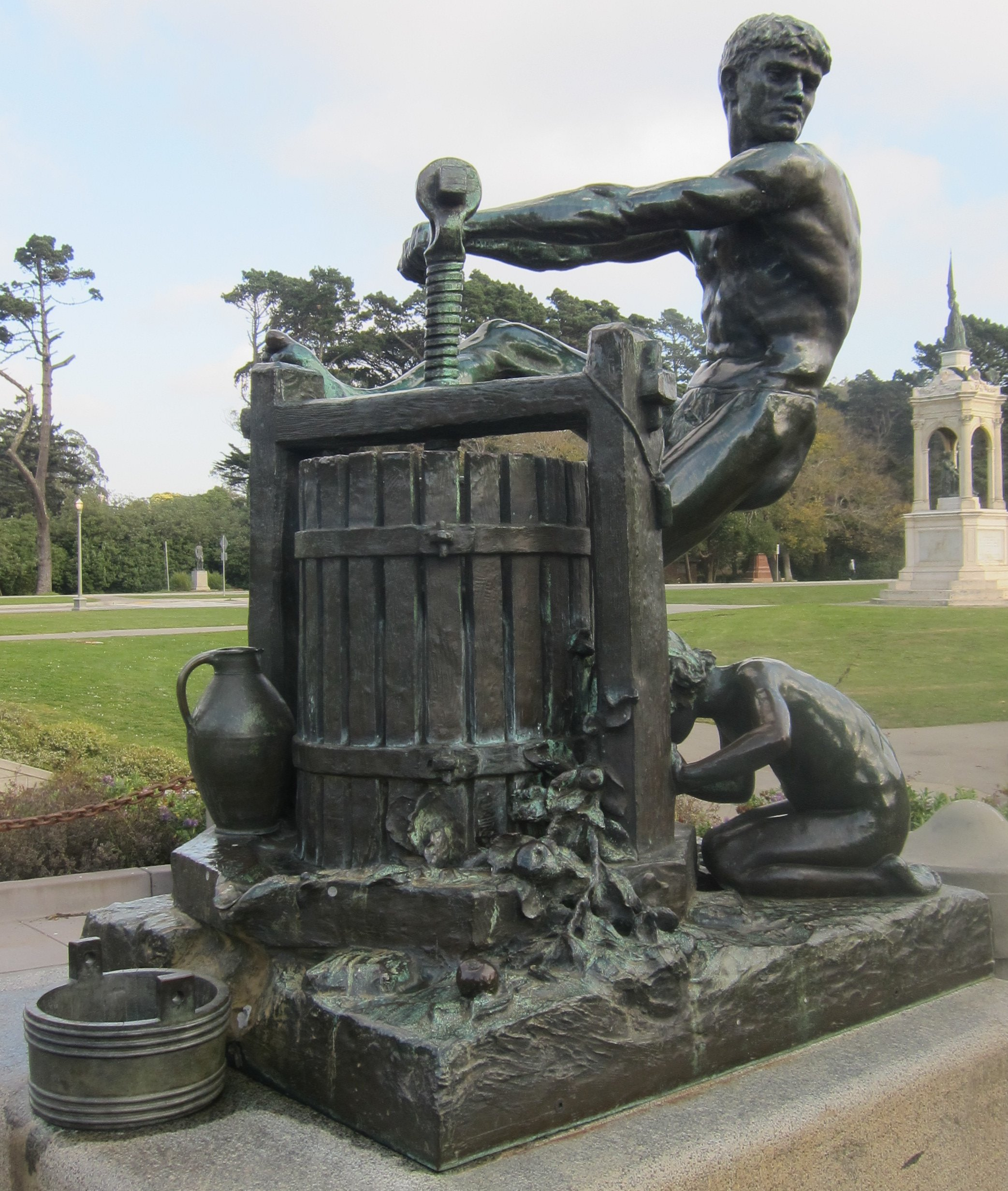 The Cider Press, bronze sculpture by Thomas Shields Clarke, 1892, Golden Gate Park, San Francisco, California